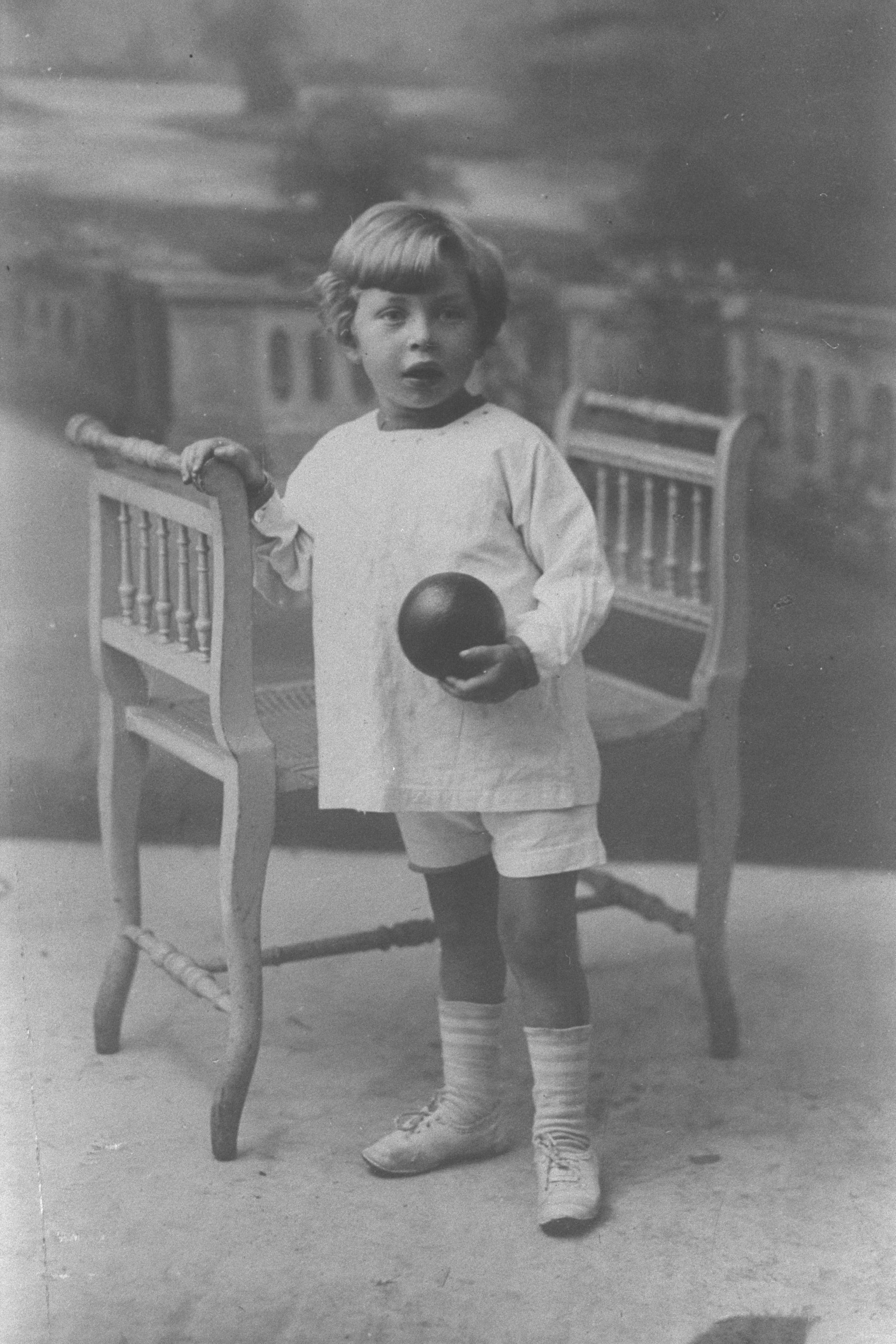 FOUR YEAR OLD CHAIM HERZOG IN PARIS. חיים הרצוג בן ה-4 בפריז.